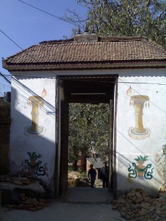 One of the ancient city gates of Kirtipur, Nepal.